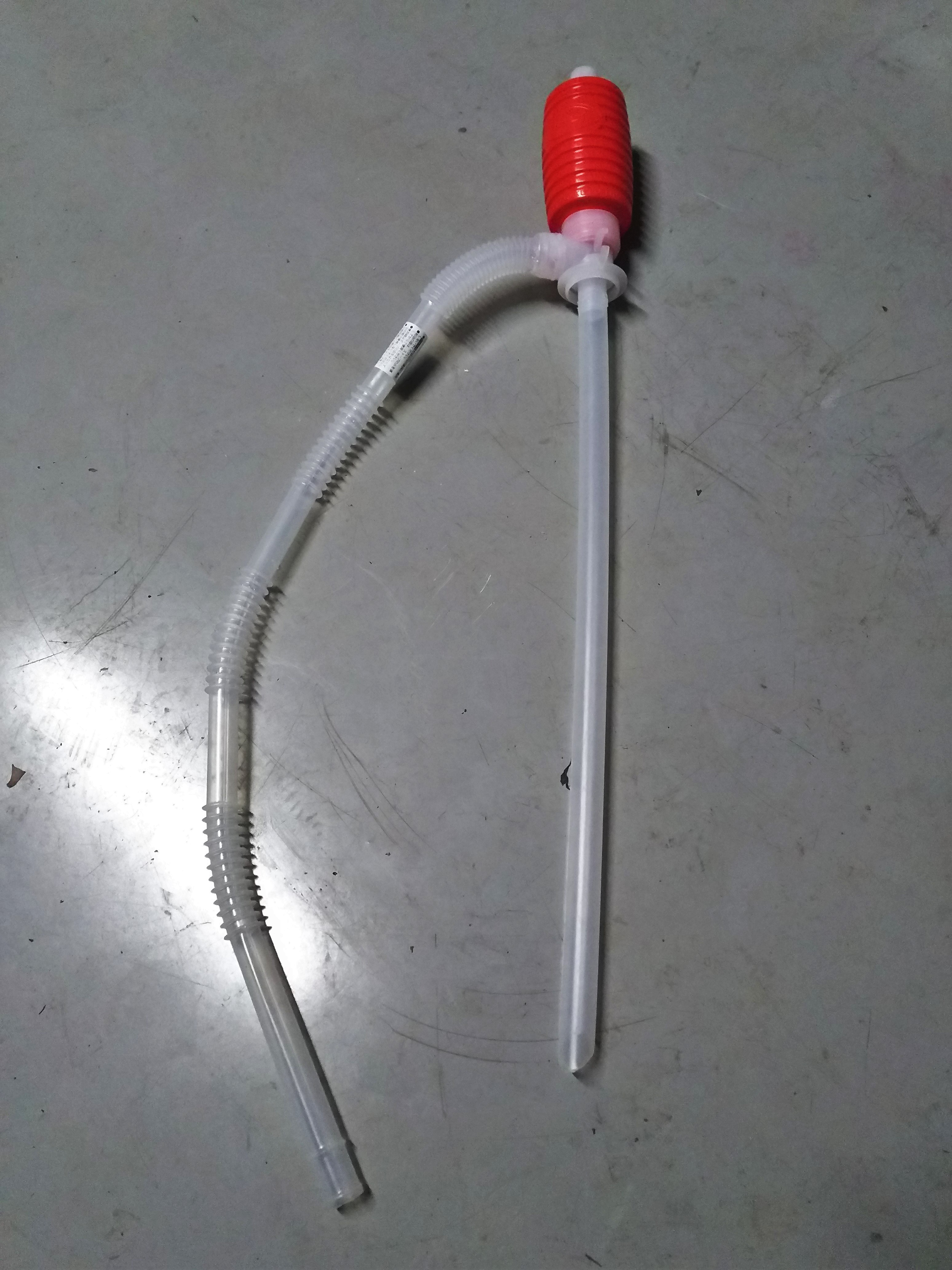 Siphon pump